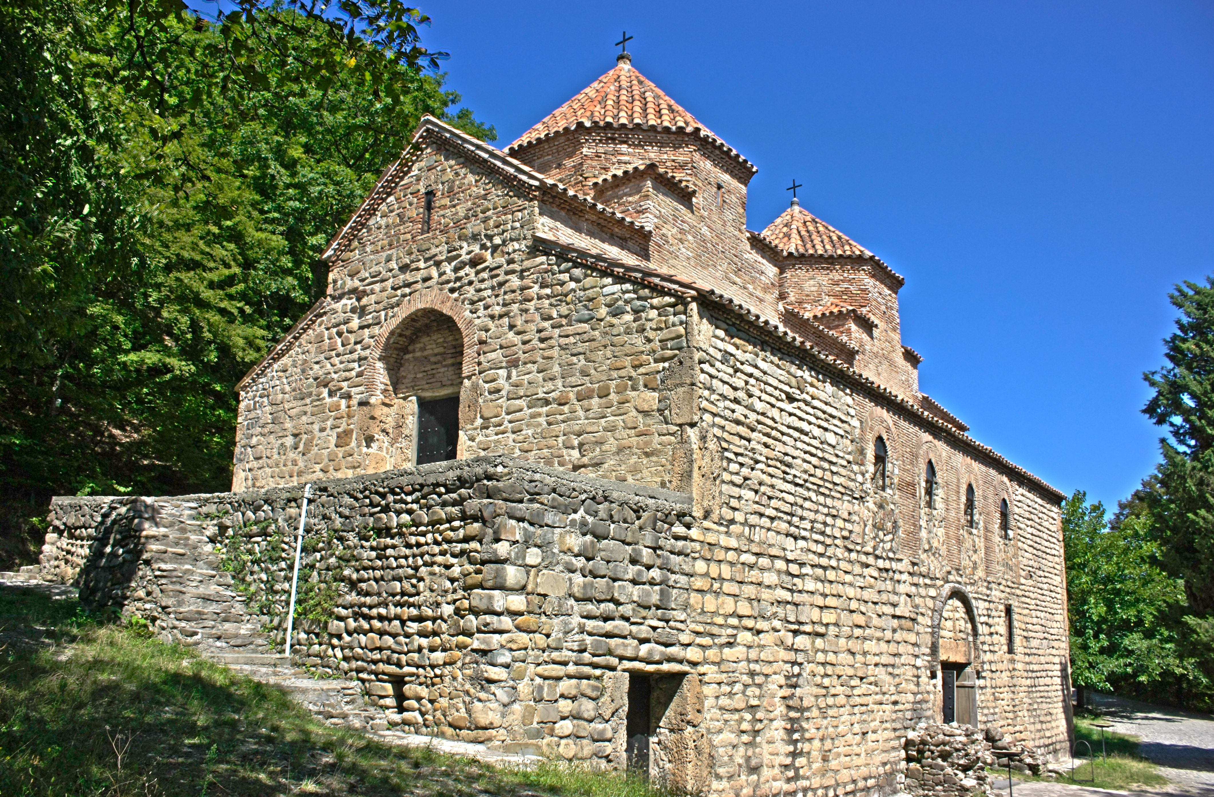 Gurjaani Kveltasminda Church